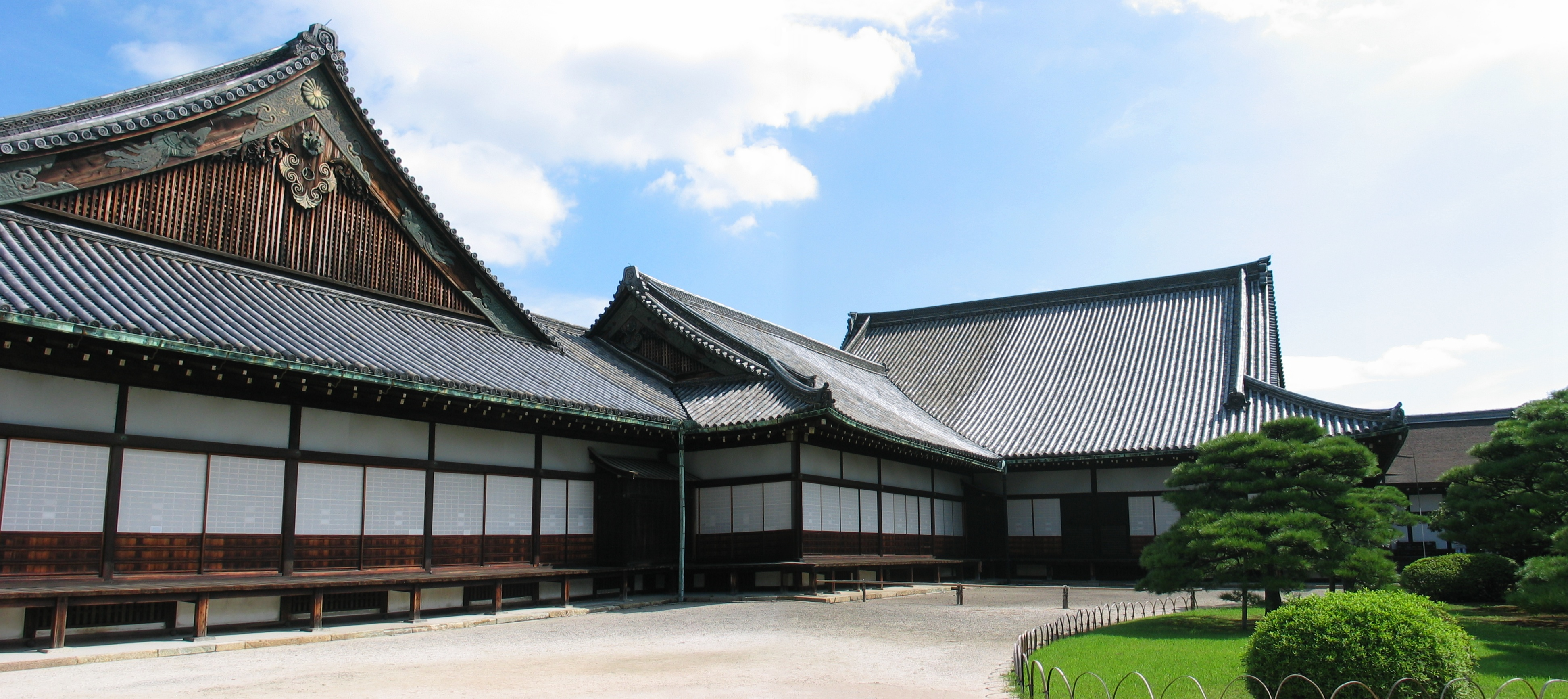 Panoramic view of buildings containing Ninomaru reception rooms at Nijo Castle in Kyoto, Japan. Stitched from 2 images using Canon PhotoStitch 3.1.